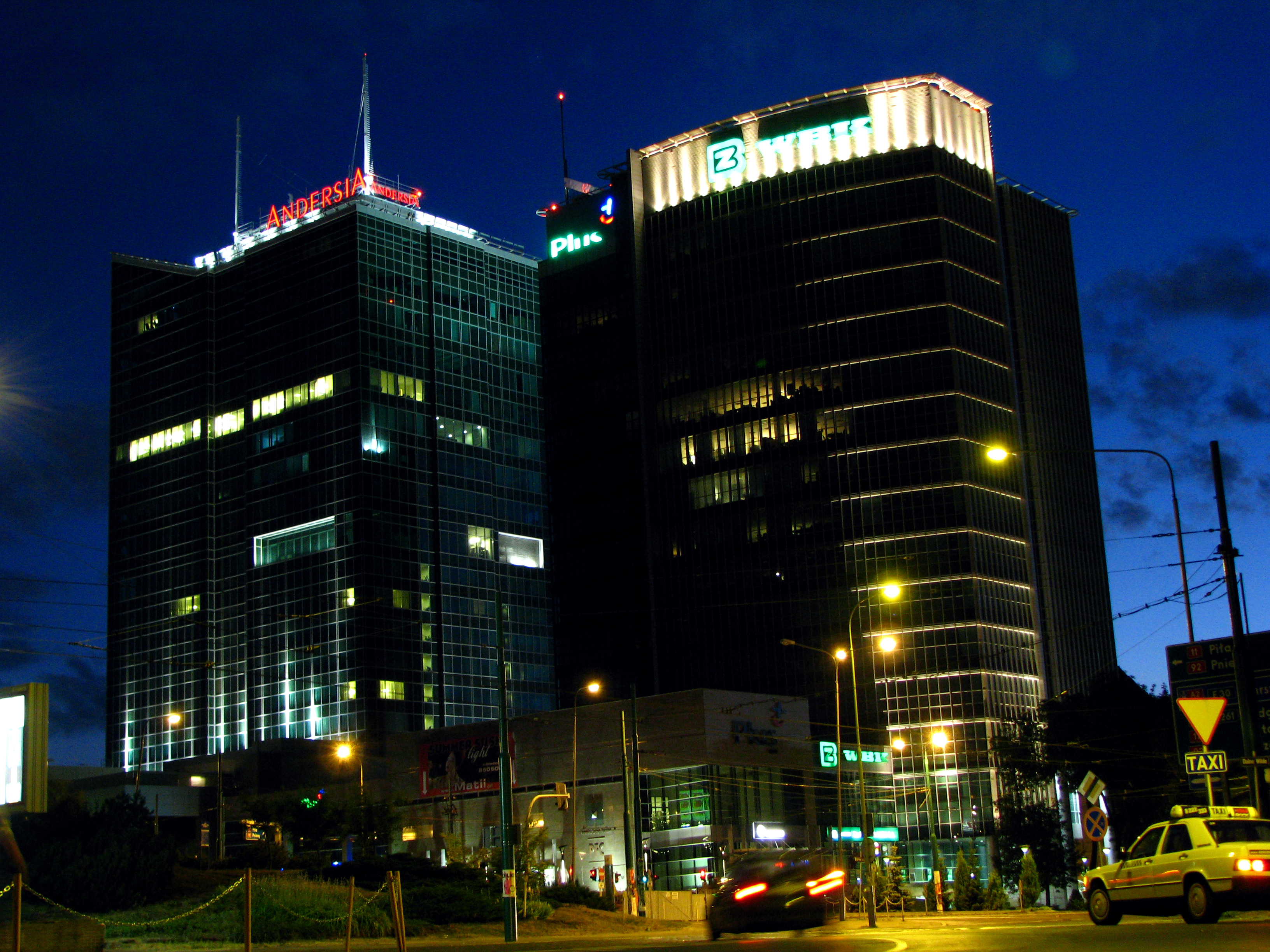 Office buildings at square Andersa in Poznan (Poznań) Poland